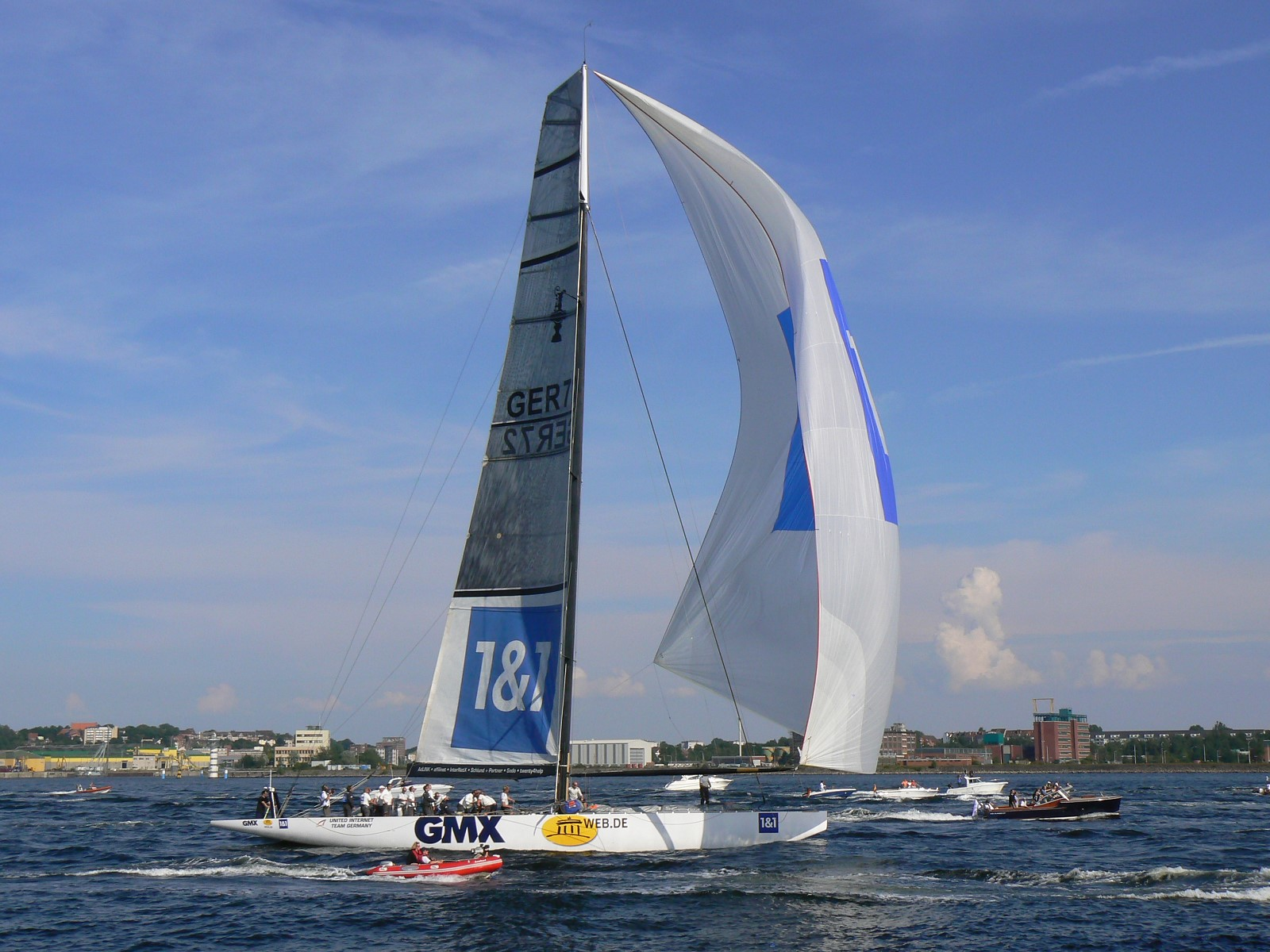 German Sailing Grand Prix Kiel 2006. United Internet Team Germany.